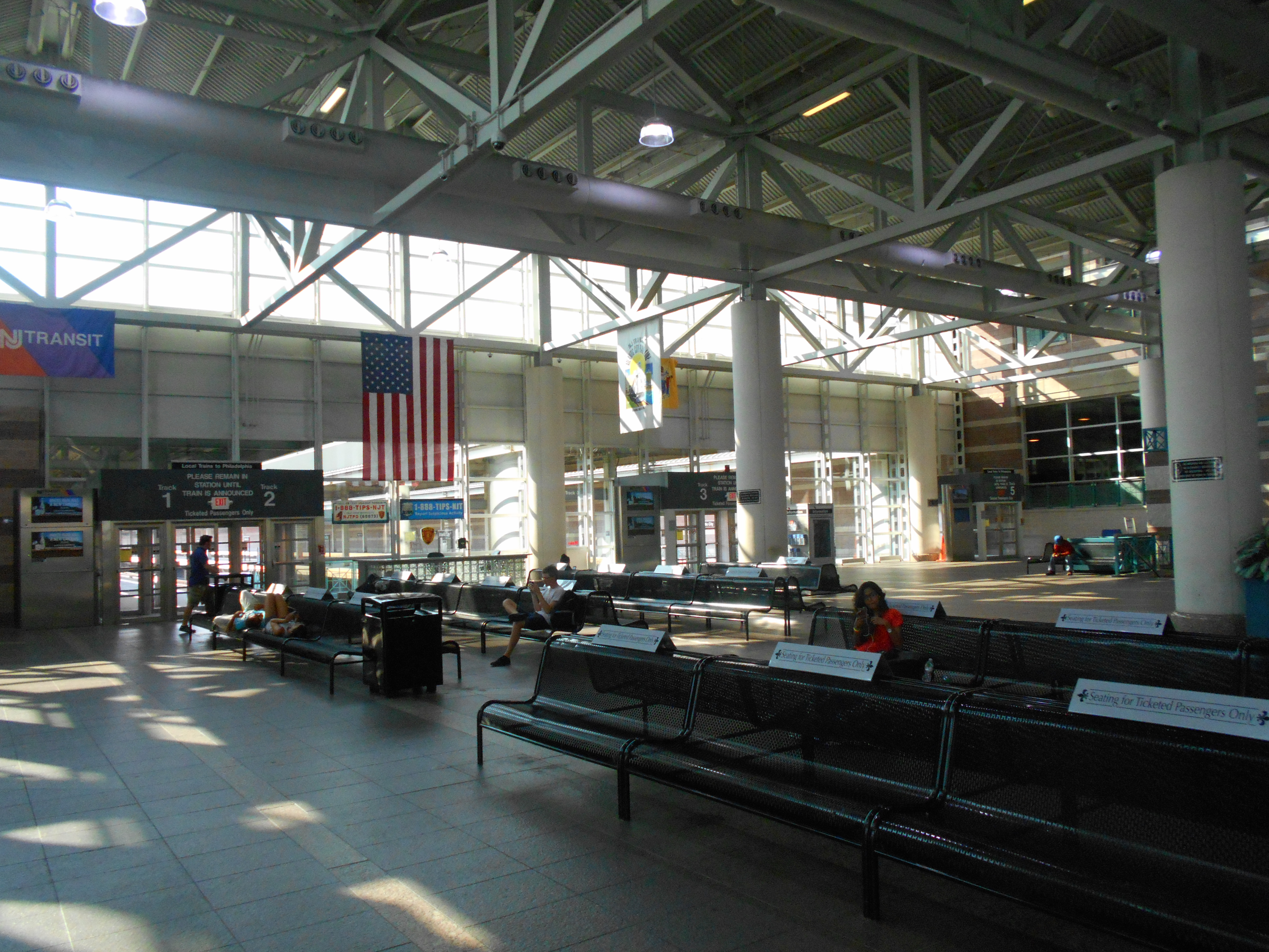 Interior of Atlantic City Rail Terminal in August 2014